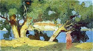 View Through the Trees